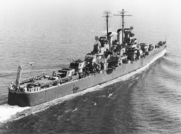 The U.S. Navy light cruiser USS Birmingham (CL-62) underway in the Hampton Roads area, Virginia (USA), on 20 February 1943.